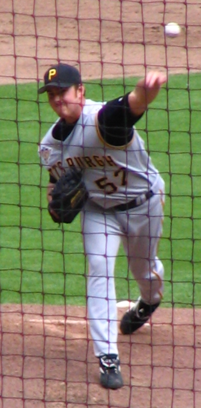 Photo of baseball ptcher Zach Duke